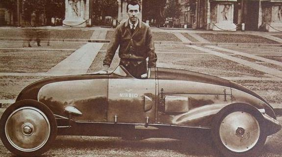 In 1935 Giovanni Lurani made the "Nibbio" with a 495 ccm V2 engine by Guzzi and body by Carrozzeria Riva. On 5 November 1935 he/Nibbio set land speed records for the I class (350 to 500 ccm engines) on the Autostrada between Firenze and Lucca, on the stretch between Autopaschio and Lucca.[1] Not sure when this picture is taken, but perhaps after the speed record?